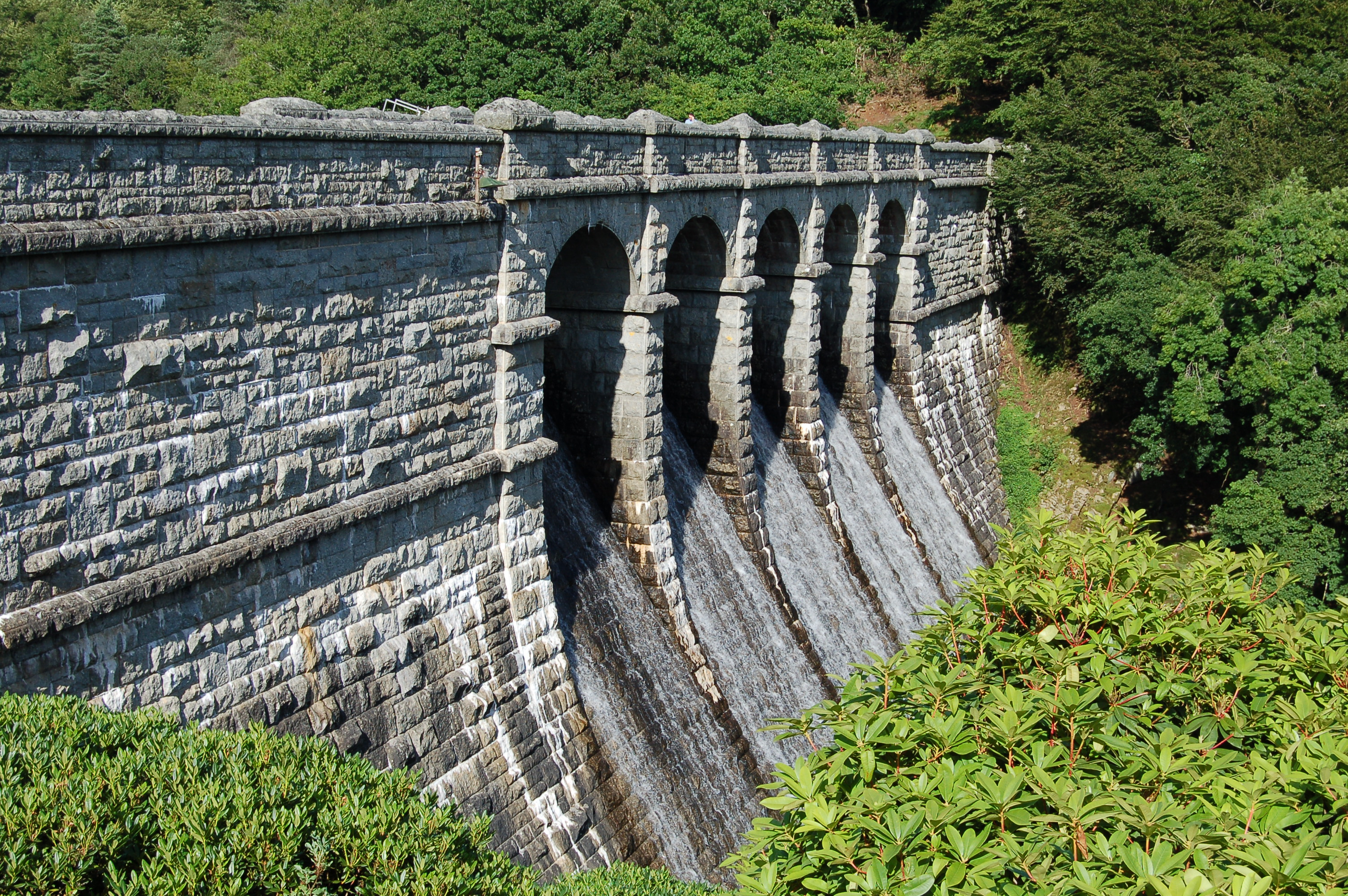 The main dam of the Burrator reservoir taken from its western most end. The reservoir is overflowing due to heavy rain in the previous weeks.